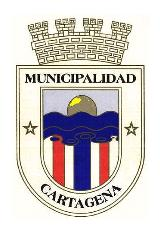 este es un archivo creado por mi.